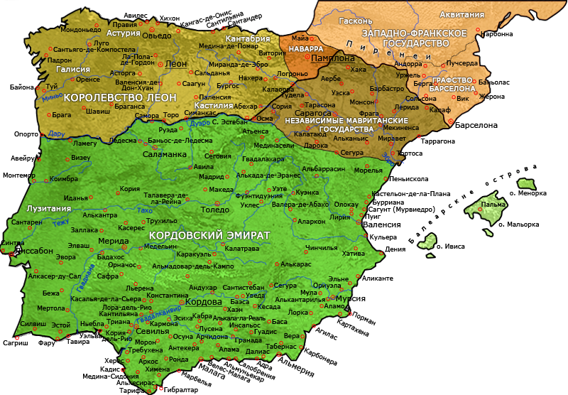 Map of the Iberian Peninsula in 910.